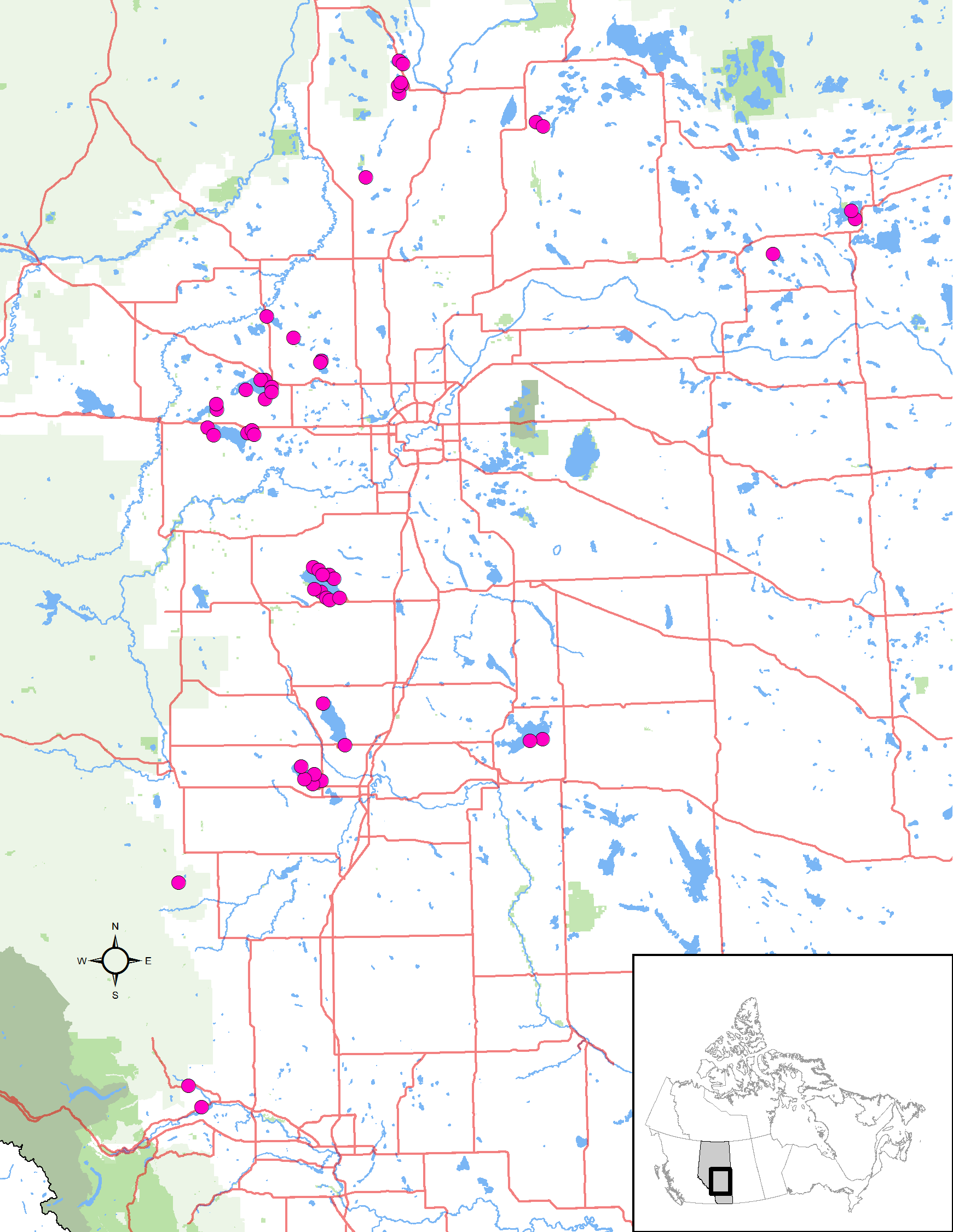 Map showing locations of Alberta's 51 summer villages as of May 2013, with base reference features (major lakes and rivers, provincial 1-216 highway series, national parks, provincial protected areas and green and white areas).